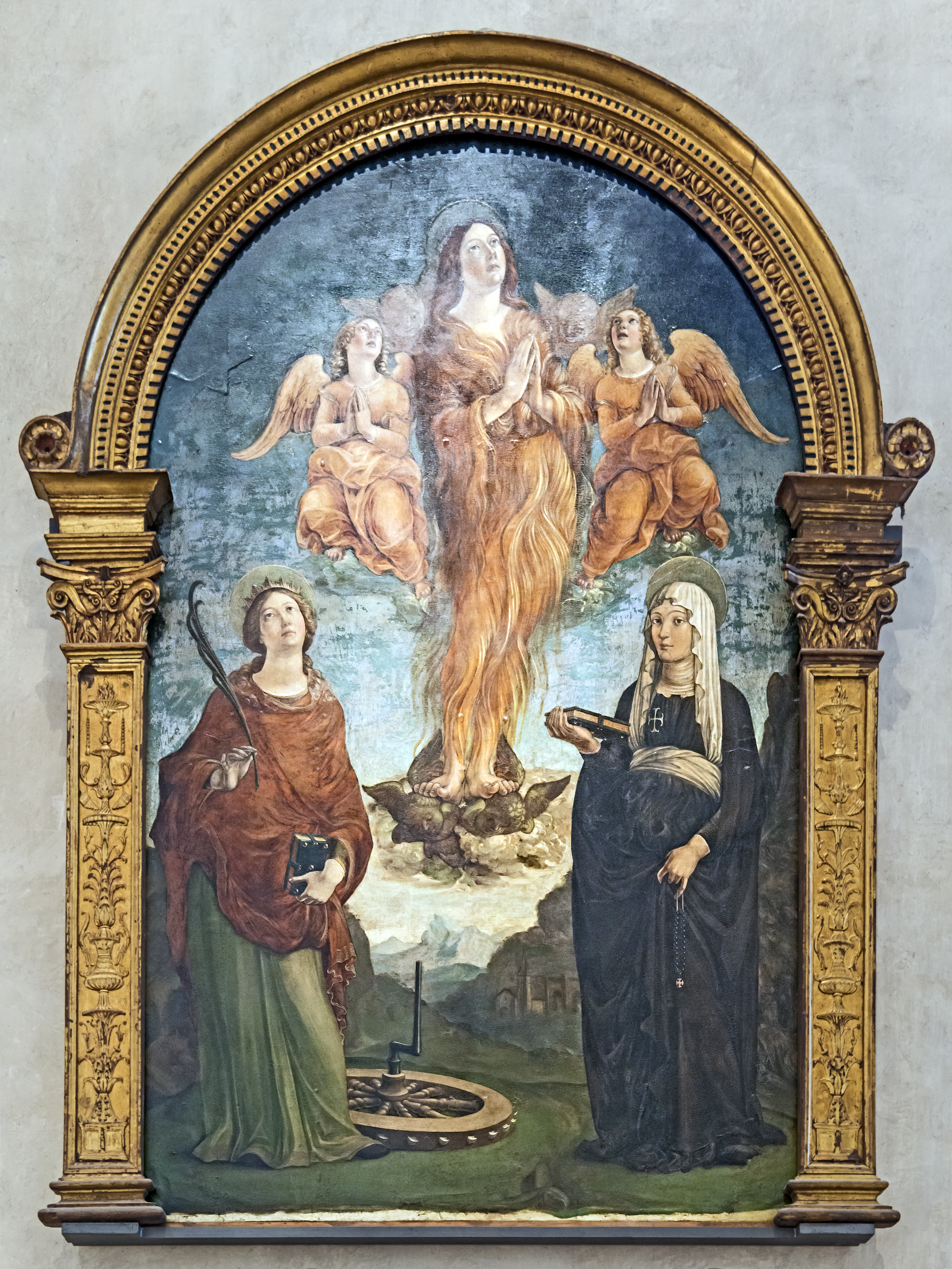 Basilica Santa Anastasia. Table altarpiece by Liberale da Verona, representing: Saint-Madeleine, Saint-Catherine and Saint-Tuscany.